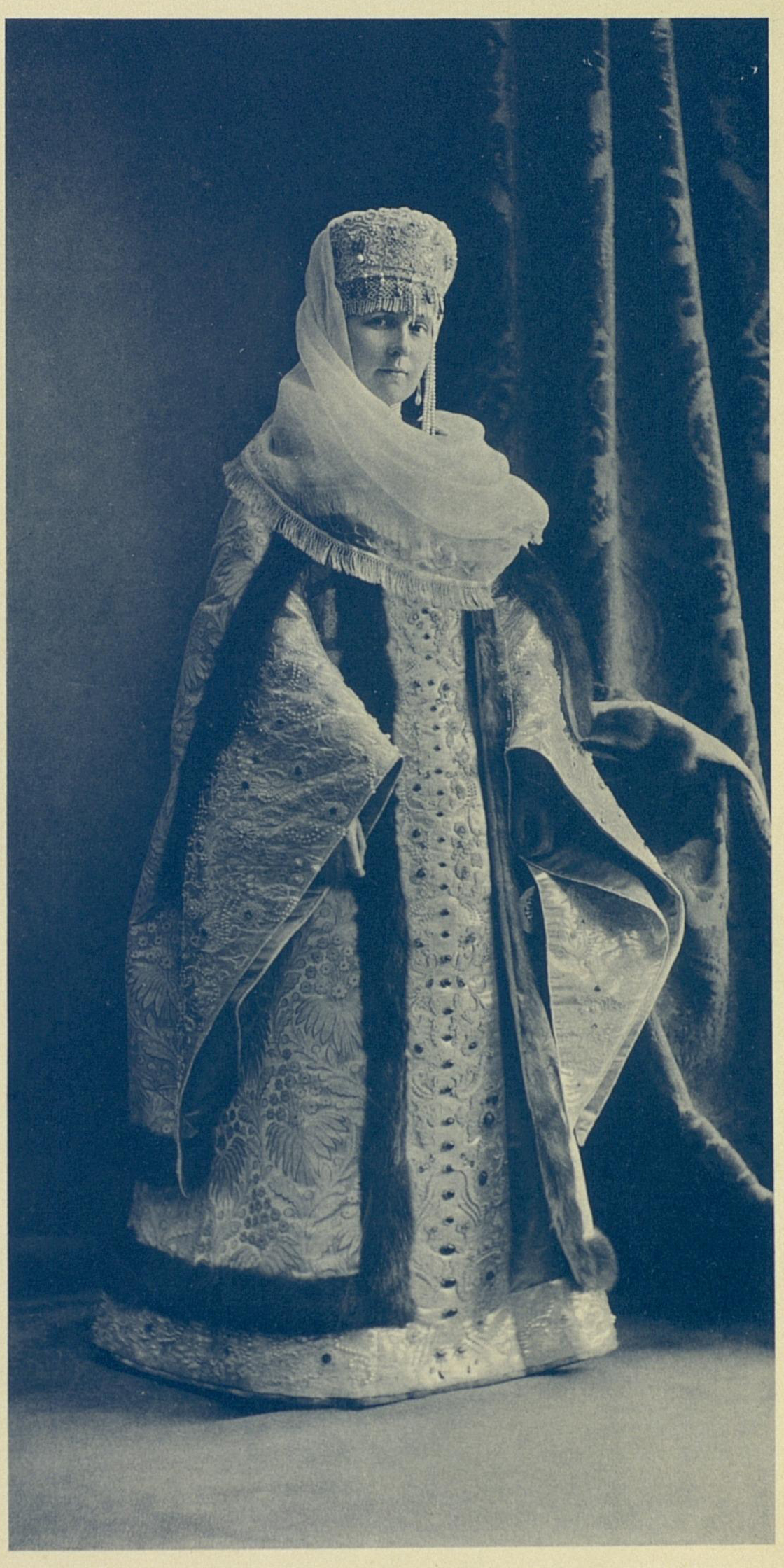 Sofia Petrovna Durnovo (Volkonskaya)